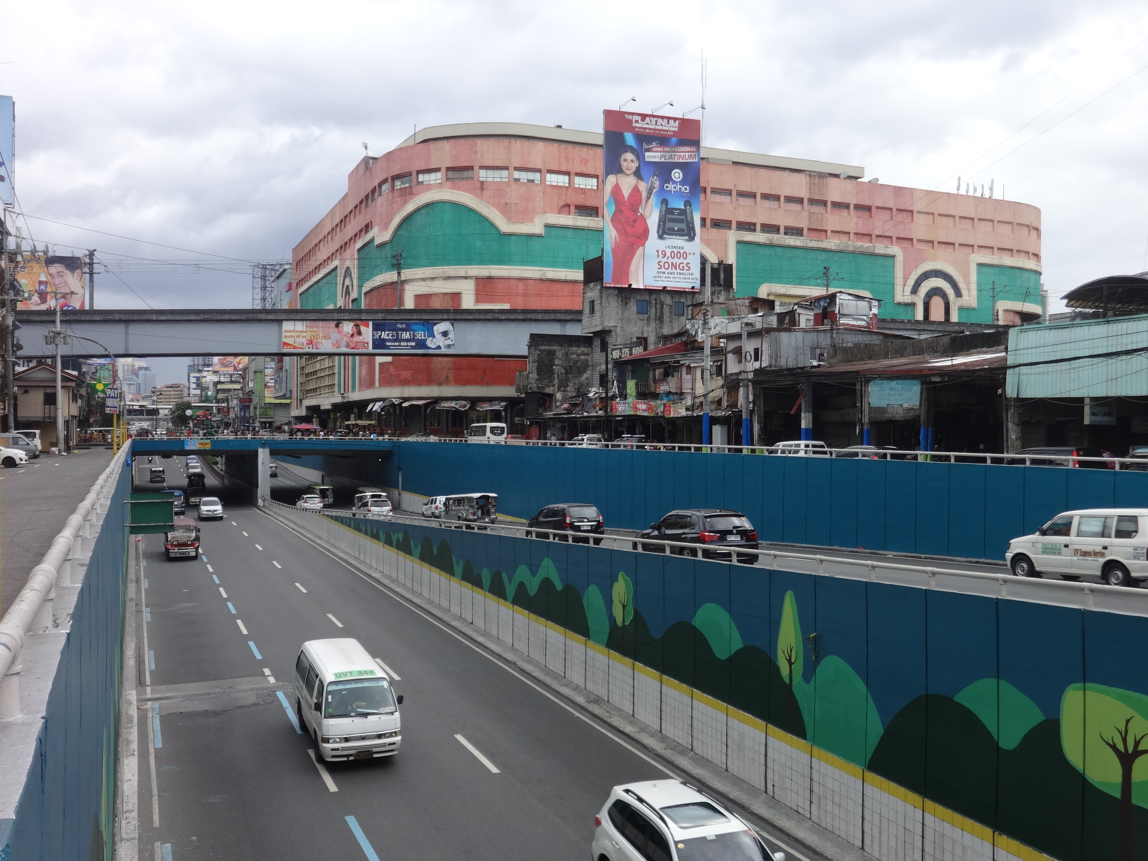 Quezon Boulevard Underpass in Manila